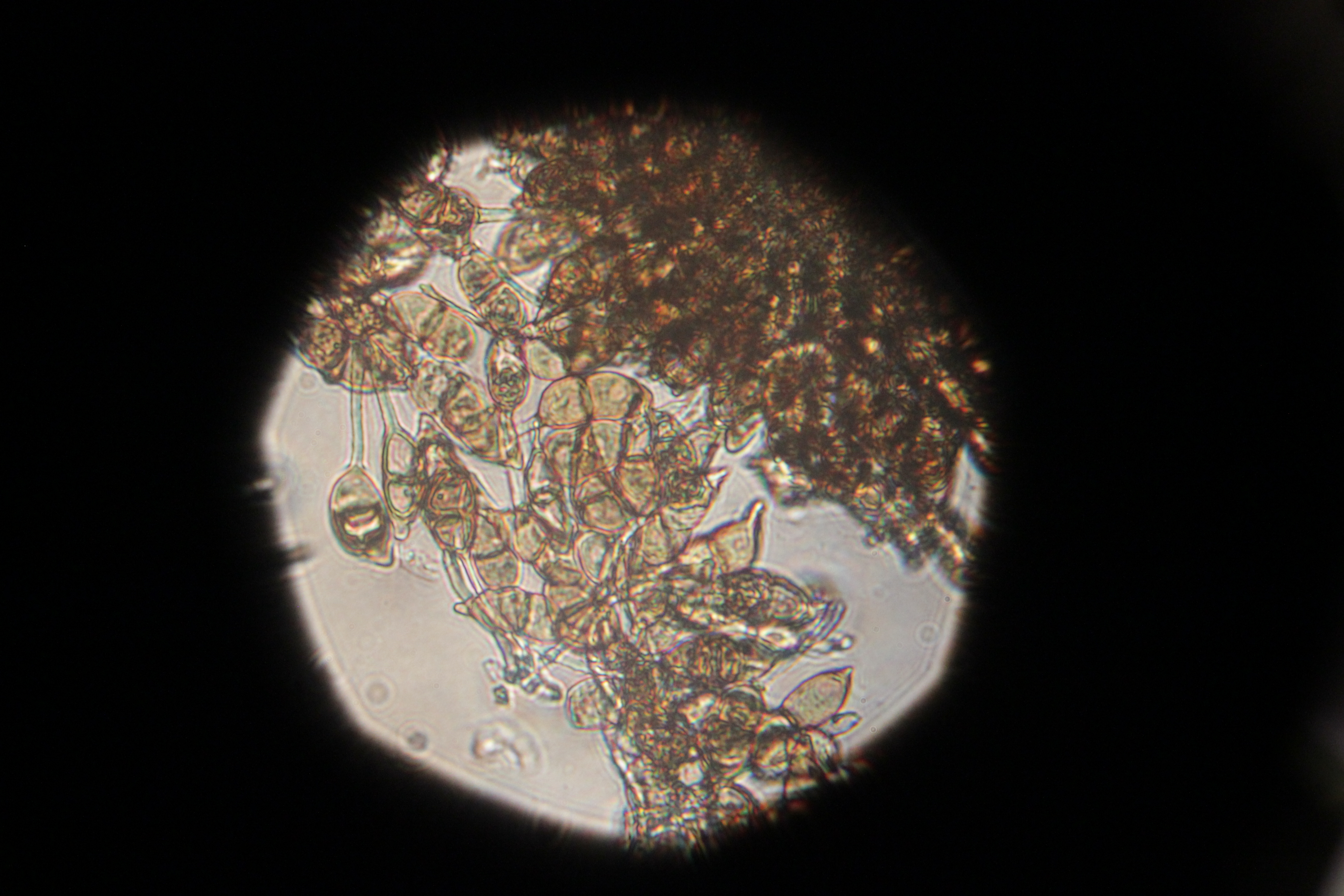 Teliospores of Puccinia glechomatis